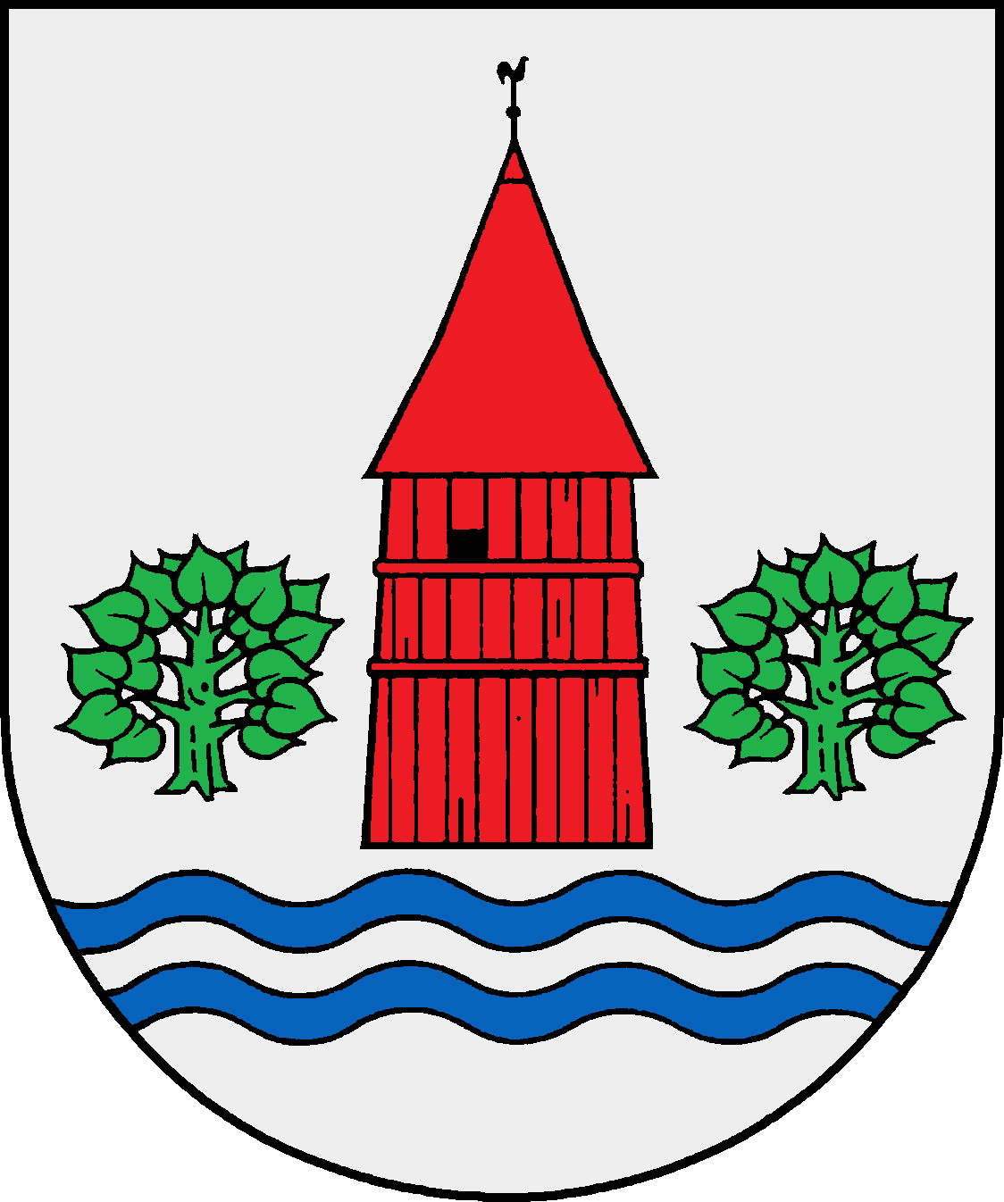 Coat of arms of the municipality Leezen in Schleswig-Holstein, Germany.